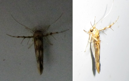 Stathmopoda margabim moth (Viette1995) Oecophoridae Endemic in Réunion.